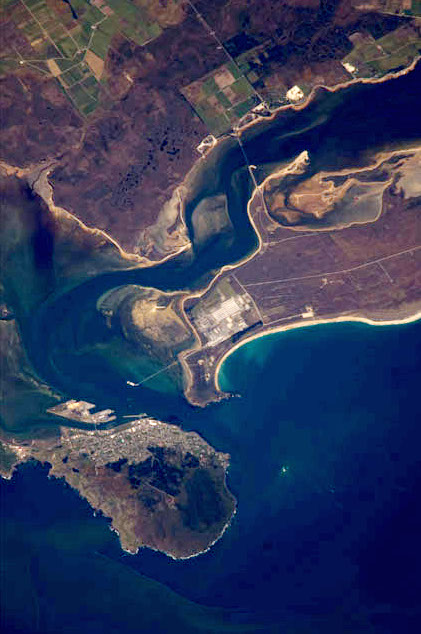 View of the Awarua Plain, Bluff and Tiwai Point, in Southland, New Zealand